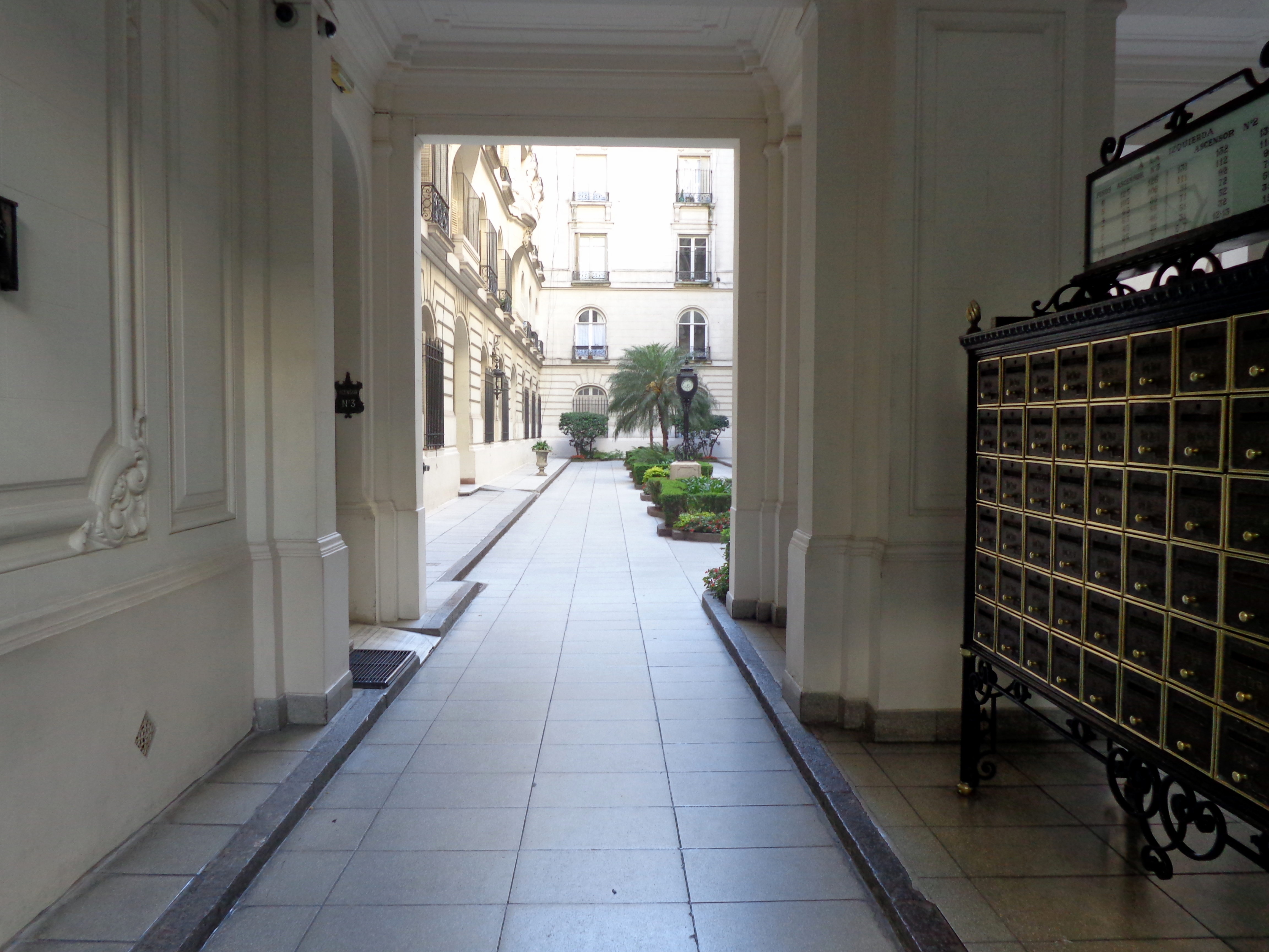 It was built in 1929, with main entrance at 3050 Ugarteche street of Palermo in Buenos Aires, Argentina. Designed by architects Henri Azière and Julio Senillosa.